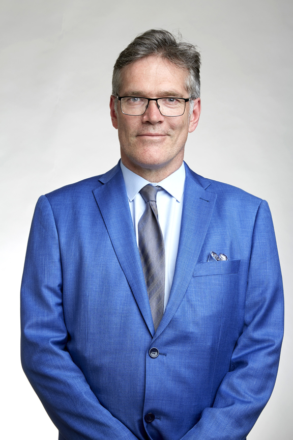 Gregory D. Edgecombe is a merit researcher in the department of Earth Sciences at the Natural History Museum, London Attribution: The Royal Society